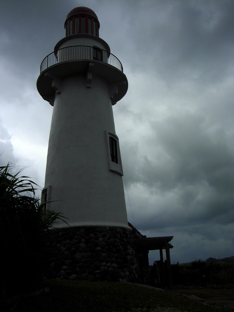 A gloomy sky over the lighthouse in Batanes